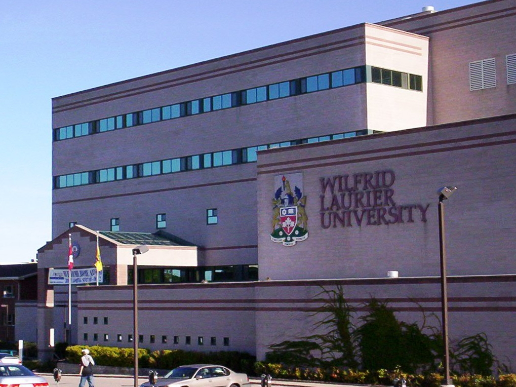 University Avenue facade of Maureen Forrester Recital Hall and John Aird Centre, Wilfrid Laurier University, Waterloo, Ontario, Canada. Personal photo by user:Radagast.